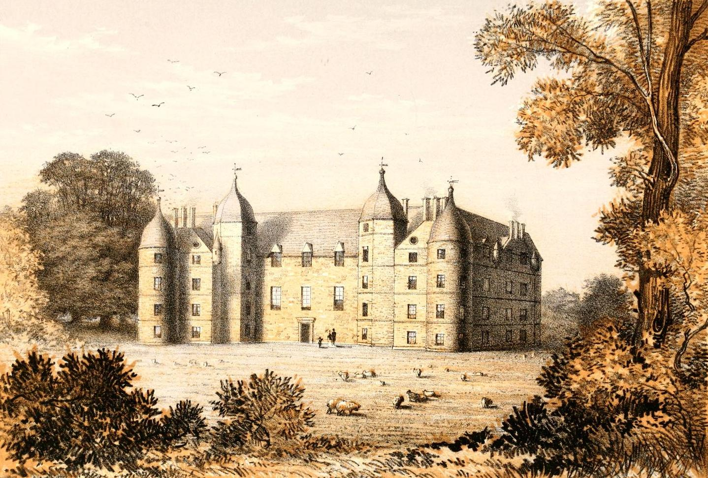 The old Tarbat House in Ross-Shire. It was demolished some time after 1745 and replaced in 1787 with the current Georgian mansion known as Tarbat House